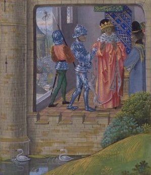 The arrest of Richard II